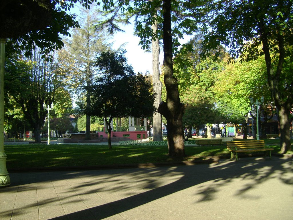 Plaza victoria